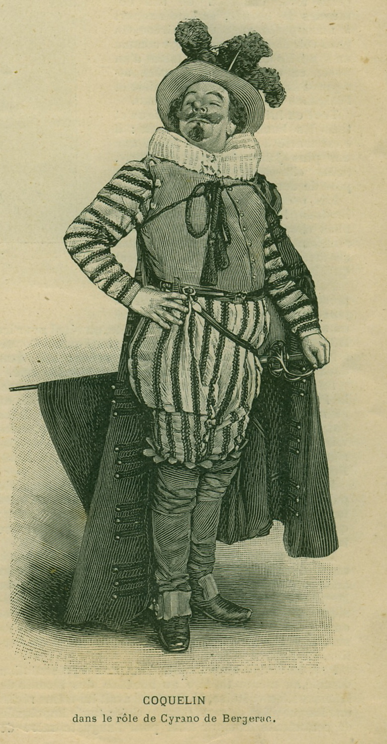 Benoît-Constant Coquelin (Coquelin aîné), actor, at the first performance of Cyrano de Bergerac, from the same-named play, by Edmond Rostand, 27 december 1897, théâtre de la Porte-Saint-Martin.